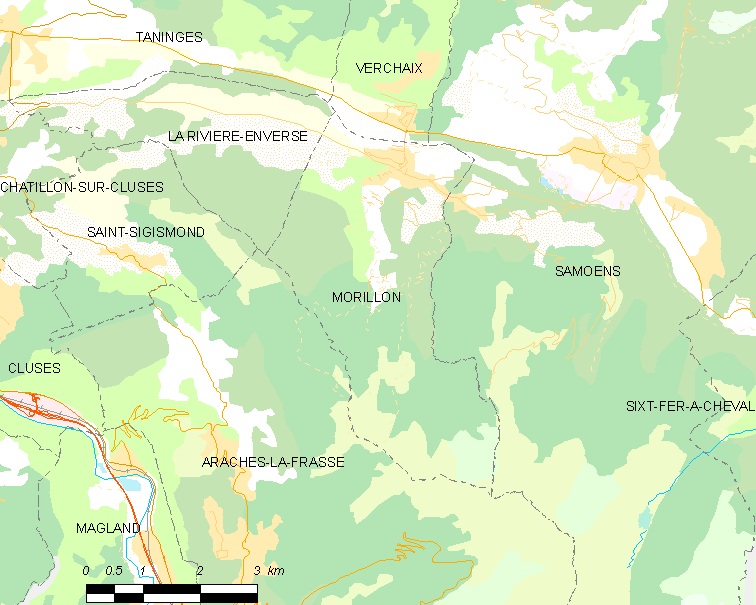 Map of French municipality Morillon